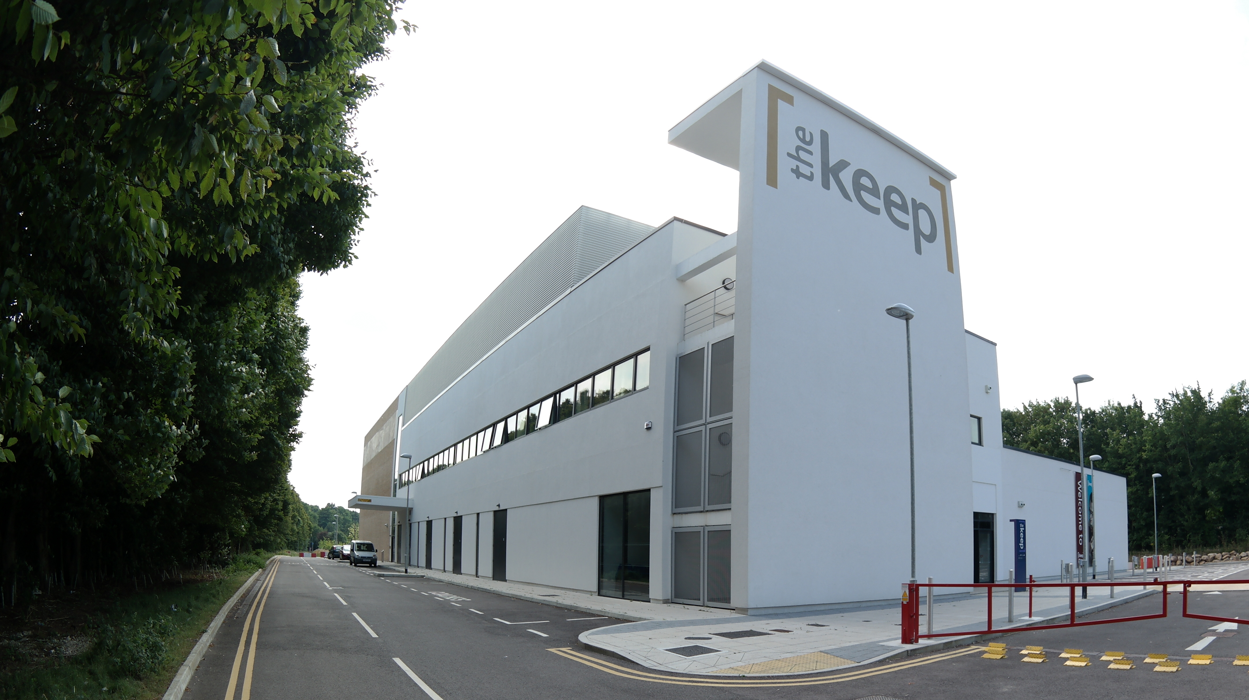 A view of the front and left side of "The Keep" record storage facility, near Falmer railway station, Brighton, in July 2014